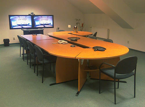 Gesto Communications videoconferencing room